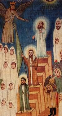 Prophets other than Muhammad in a painting of the Day of Judgment from 19th-century Iran.